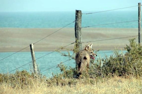 Argentine Gray Fox